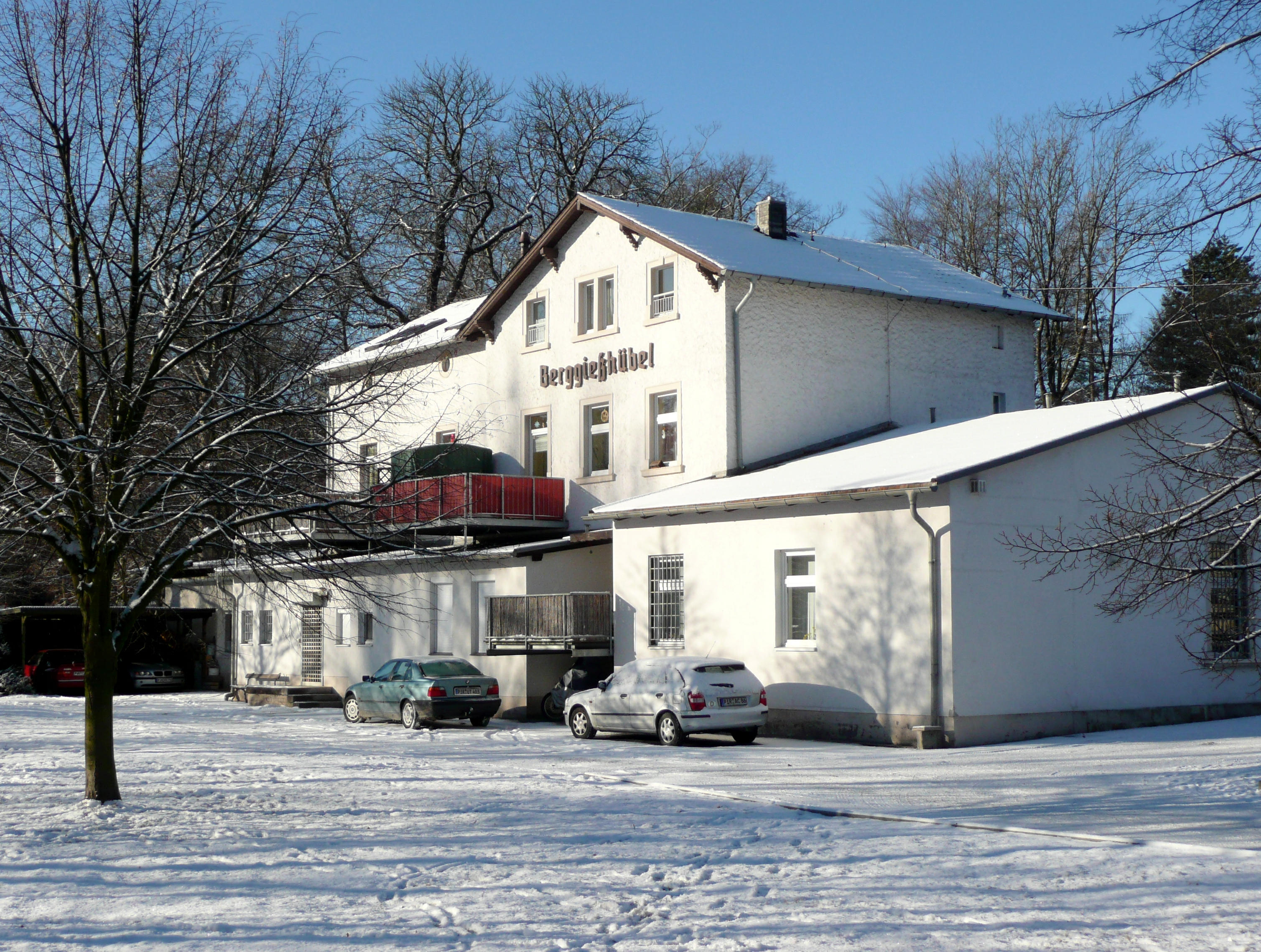 This image shows the former station in Berggießhübel (Saxony, Germany). The railway line from Pirna to Berggießhübel and Bad Gottleuba operated from 1880/1905 to the early 1970`s.